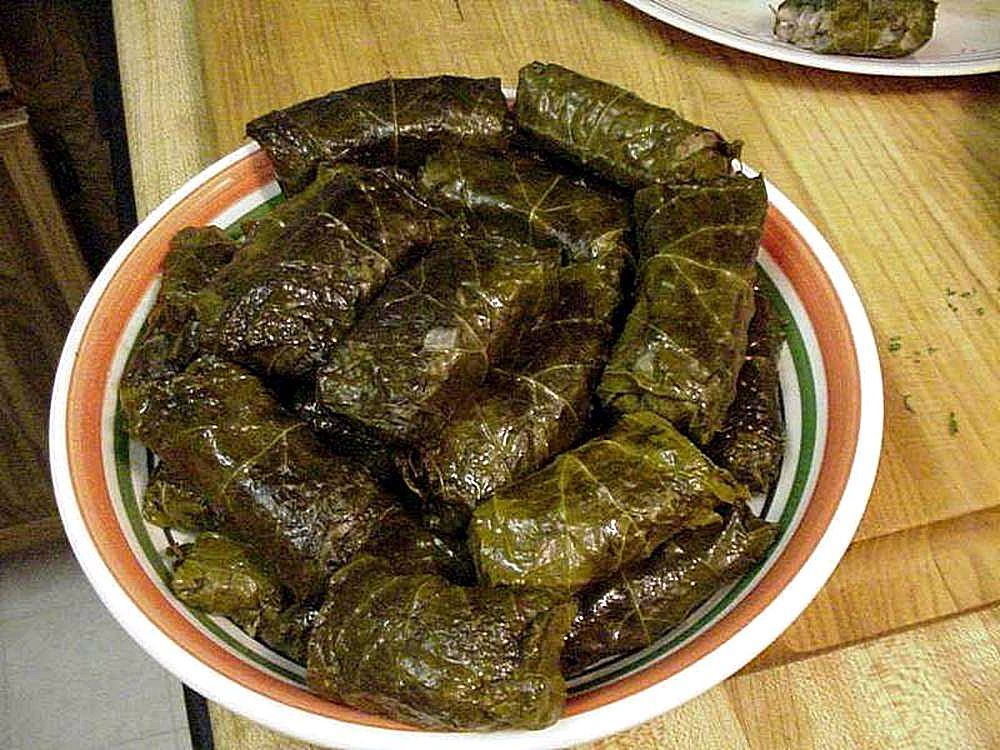 Image title: Stuffed grapes leaves Image from Public domain images website